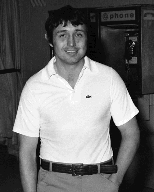 Brad Park of Boston Bruins. 1970's